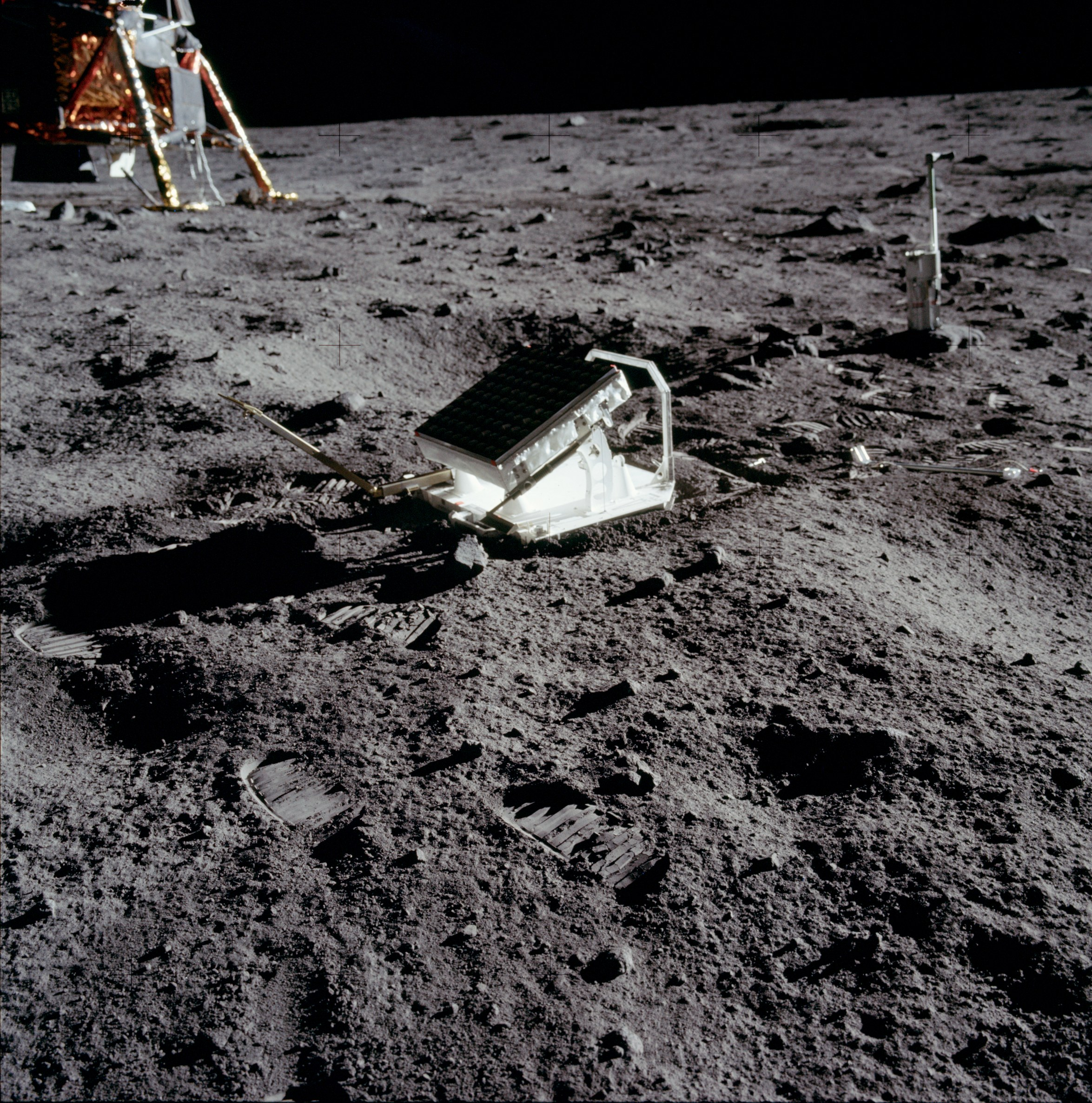 Lunar Laser Ranging Experiment with the stereo camera in the background (NASA image number AS11-40-5952). This Retroreflector was left on the Moon by astronauts on the Apollo 11 mission. Astronomers all over the world have reflected laser light off the reflectors to measure precisely the Earth-Moon distance.